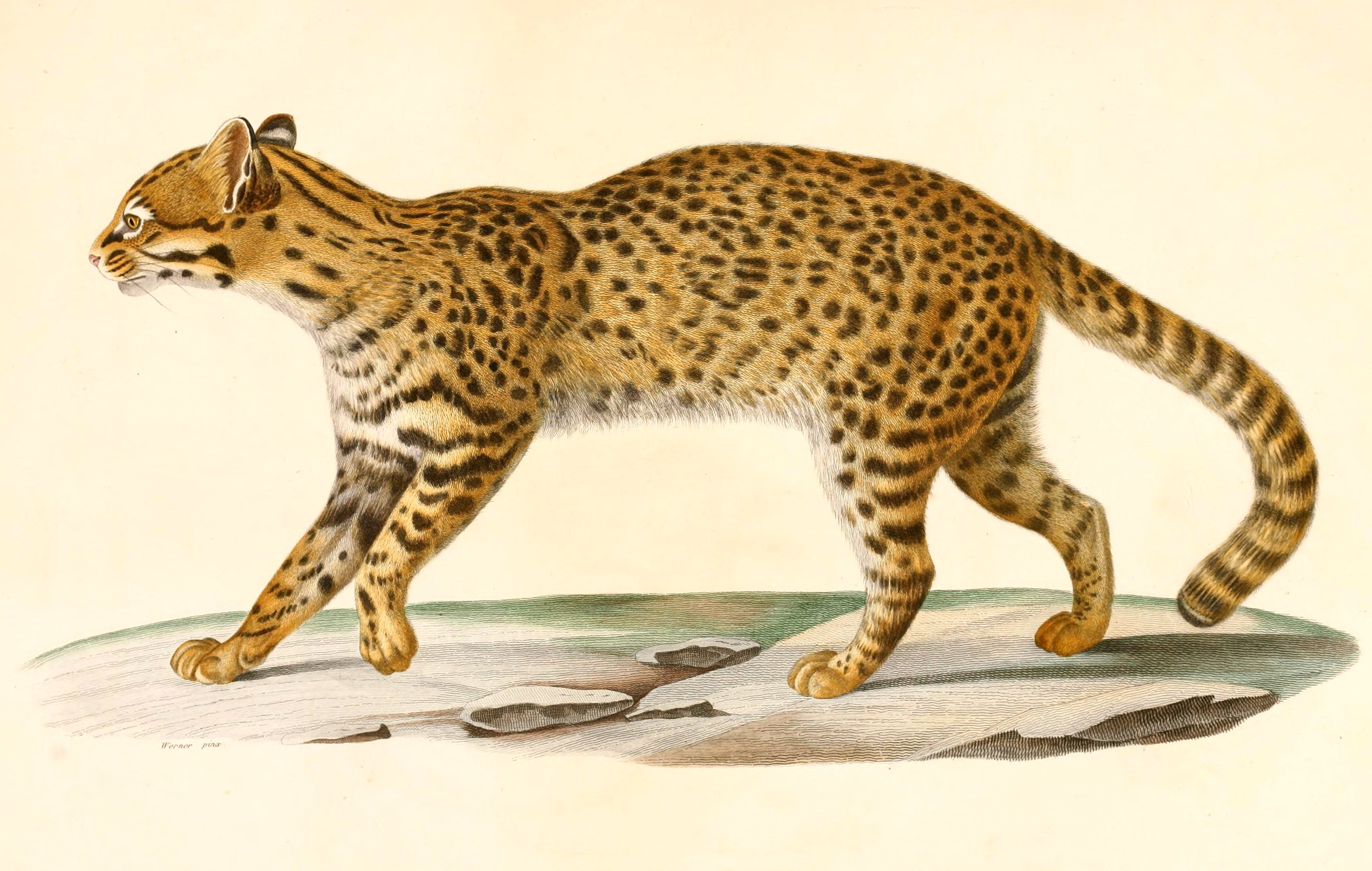 « Felis geoffroyi » = Leopardus geoffroyi geoffroyi (Geoffroy's cat)